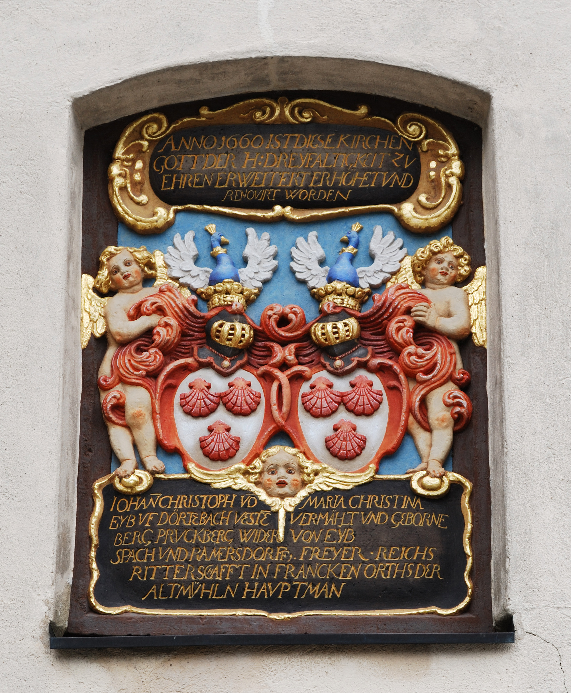 Inscription for renovation by the Family von Eyb on the protestant Trinity Church in Dörzbach, Southern Germany.